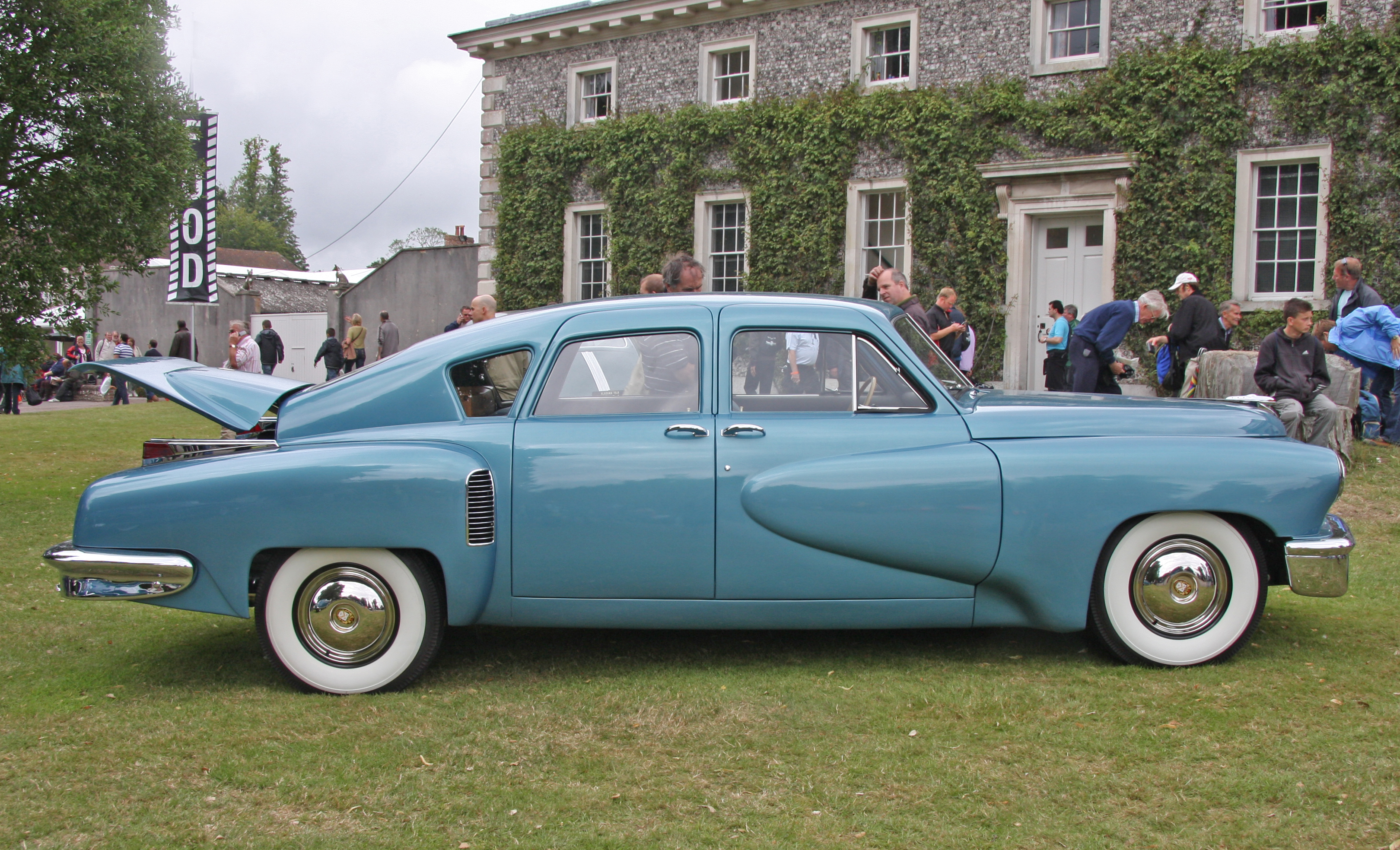 1948 Tucker Torpedo